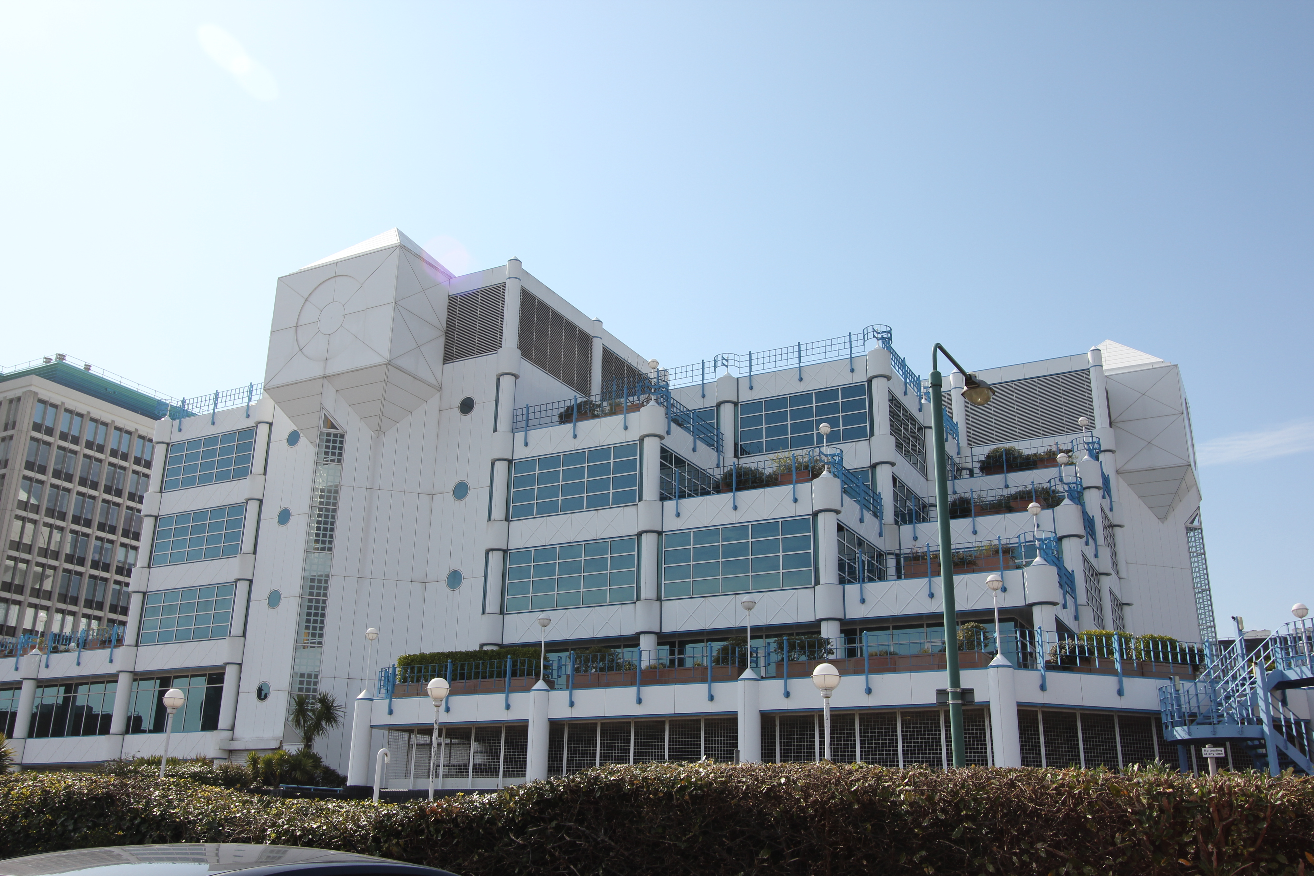 McCarthy and Stone's Head Office. 100 Holdenhurst Rd, Bournemouth BH8 8AQ